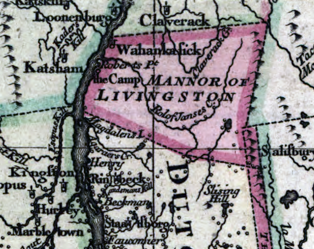 Map of the provinces of New York and New Jersey cropped to highlight Livingston Manor